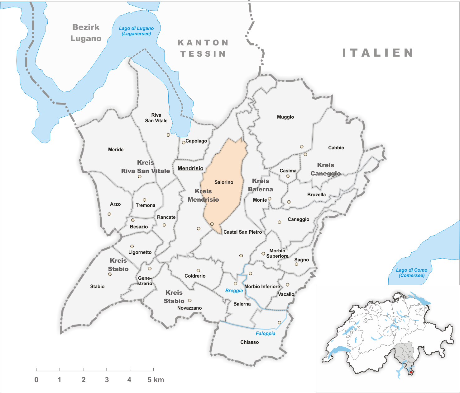 Municipality Salorino Artist: Tschubby